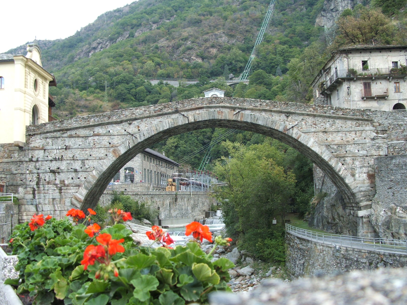 The Roman Pont-Saint-Martin Bridge in Pont-Saint-Martin, Aosta Valley, Italy.